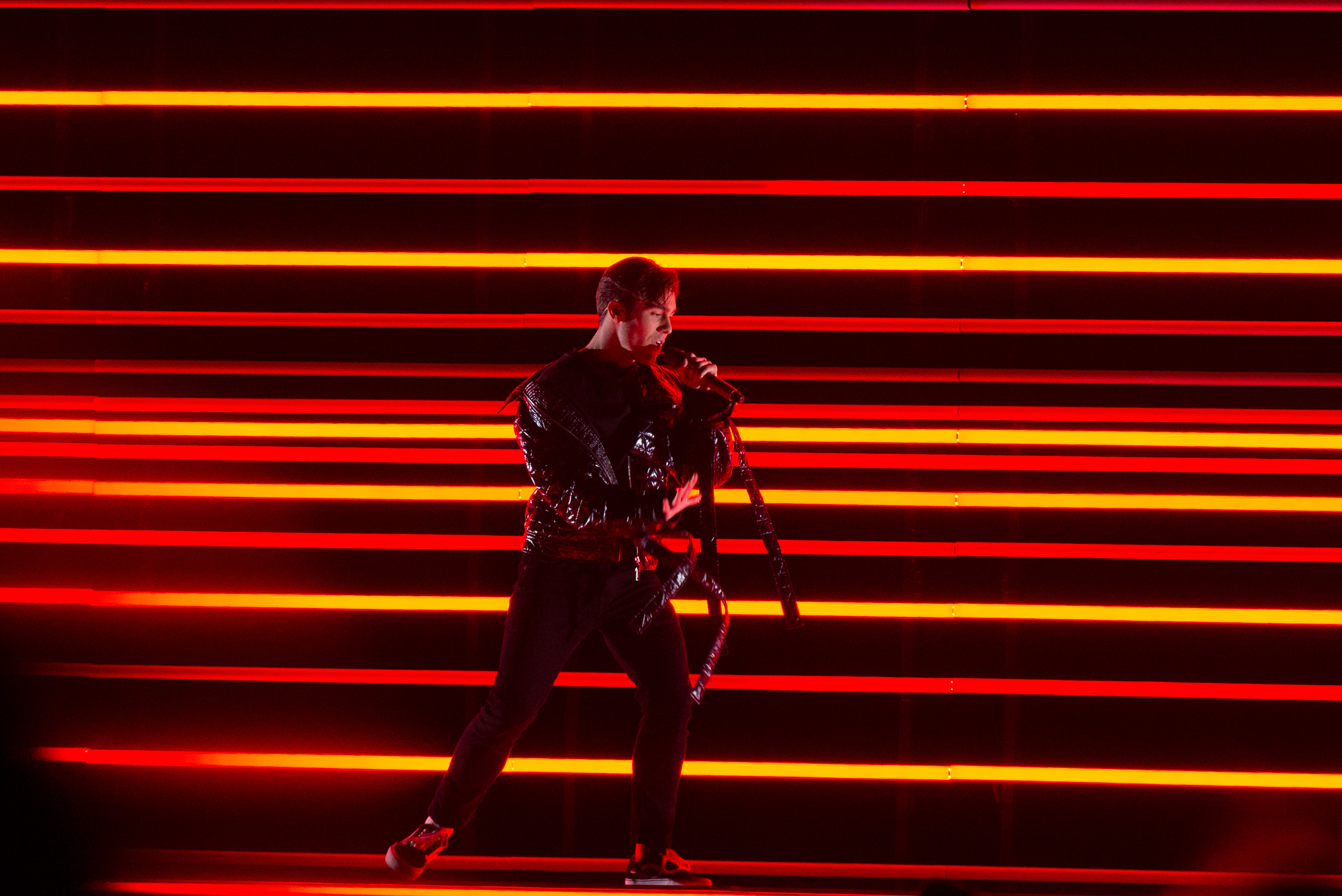 Melodifestivalen 2018 Final in Stockholm